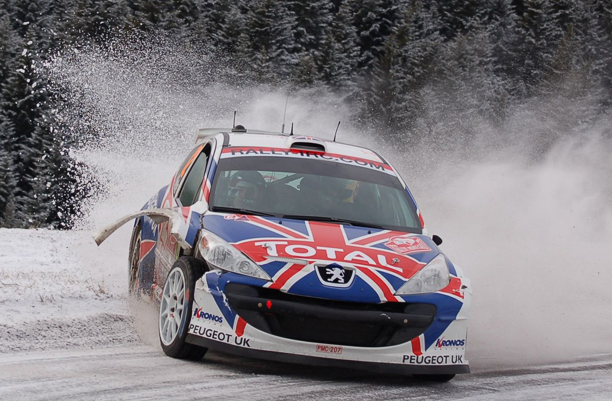 Meeke-Nagle in Monte-Carlo Rally 2009 Internationnal Rallye Challenge winner 2009